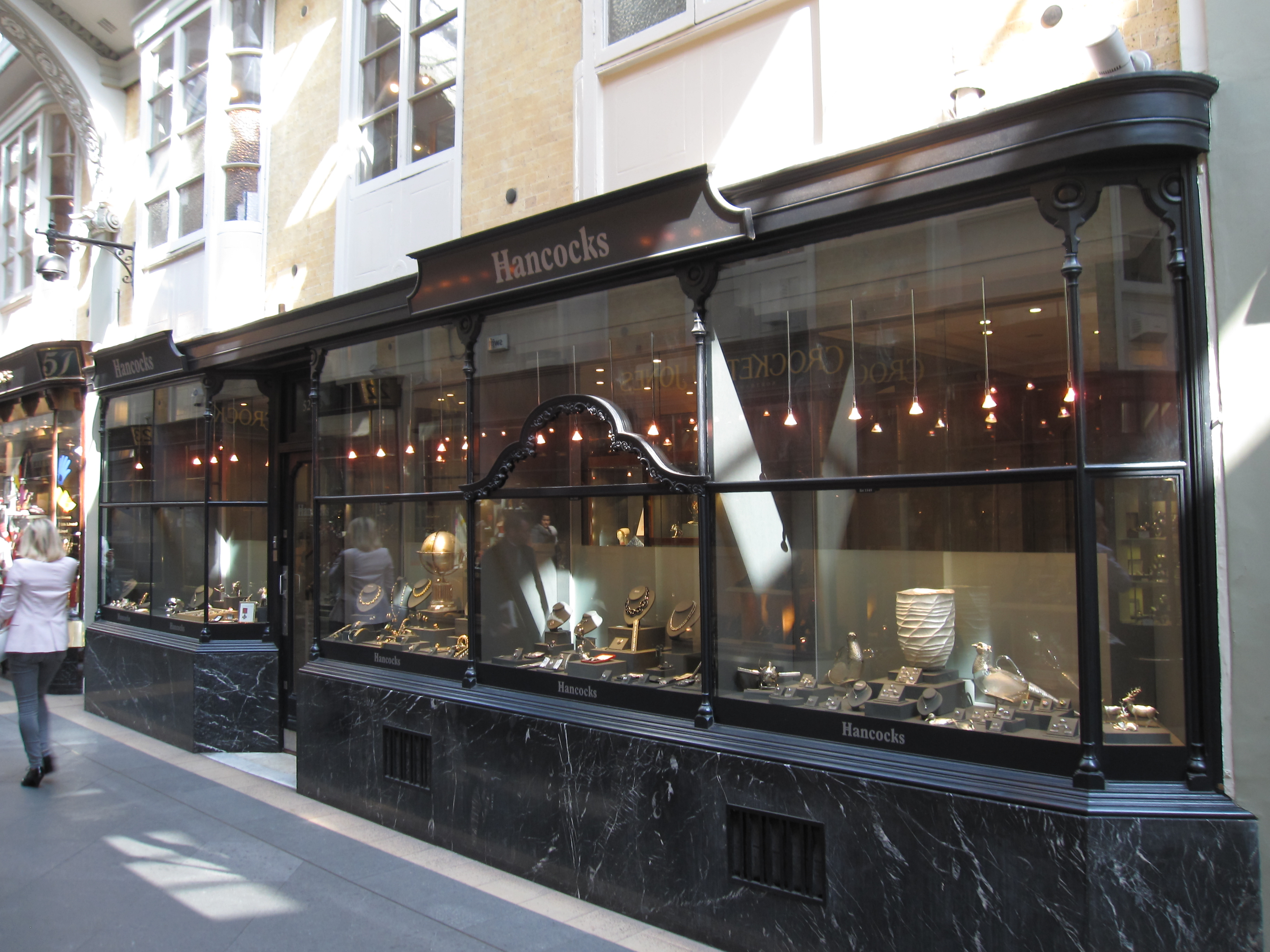 Hancocks & Co in 52/53 Burlington Arcade in London.